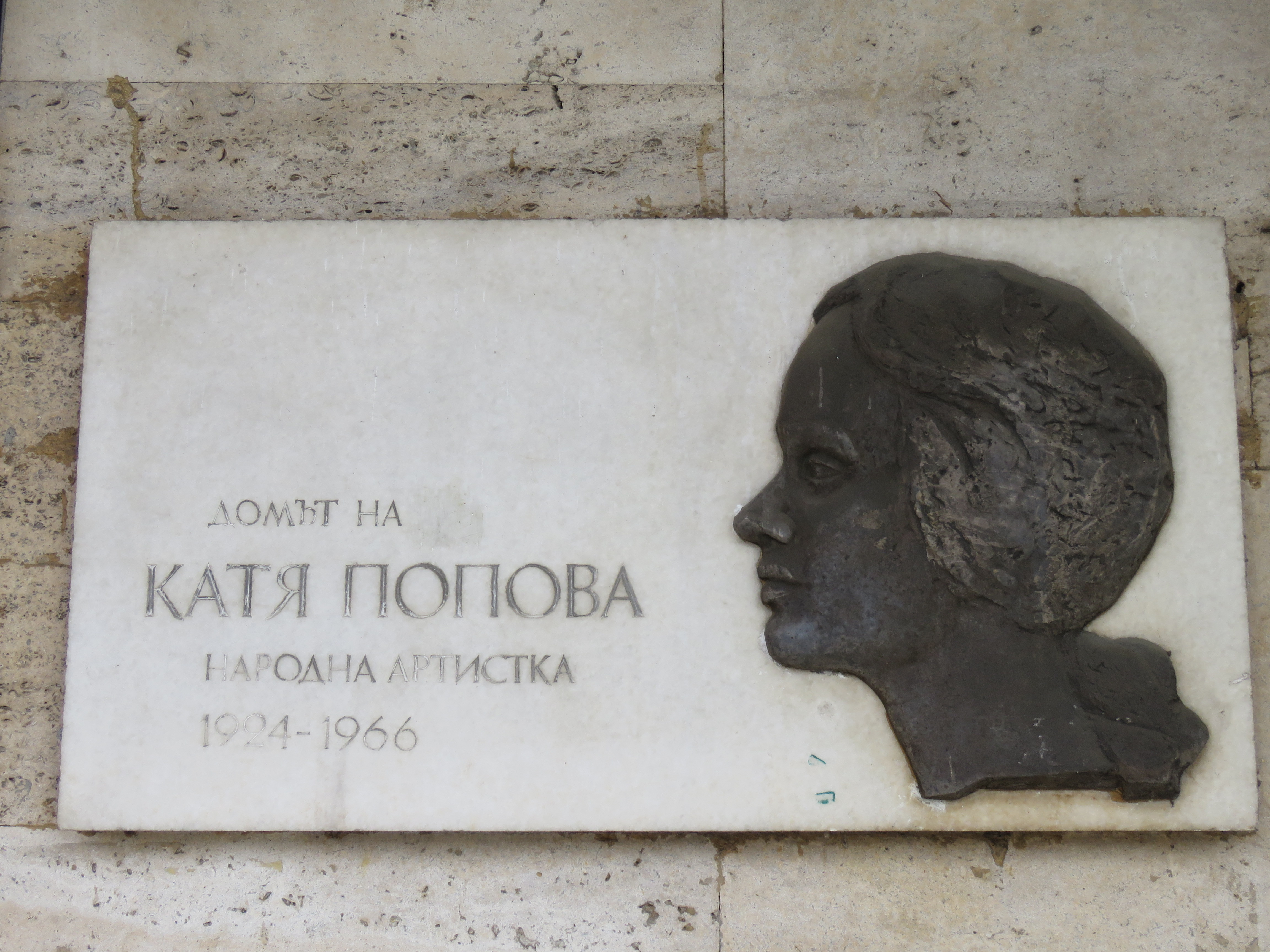 Plaque on the building where Katya Popova, Bulgarian Opera singer lived in Sofia